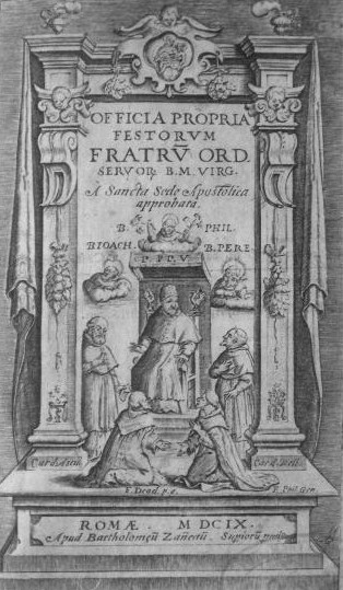 Title page of Officia Propria Festorum Fratrum Ordinis Servorum (1609), listing the festivals kept by the Servite Order. It shows Pope Paul V seated, with Cardinal Bellarmine (standing right) and Cardinal Bernieri (standing left), also Filippo Ferrari (prior general of the Servites, right) and Deodato Ducci (left).